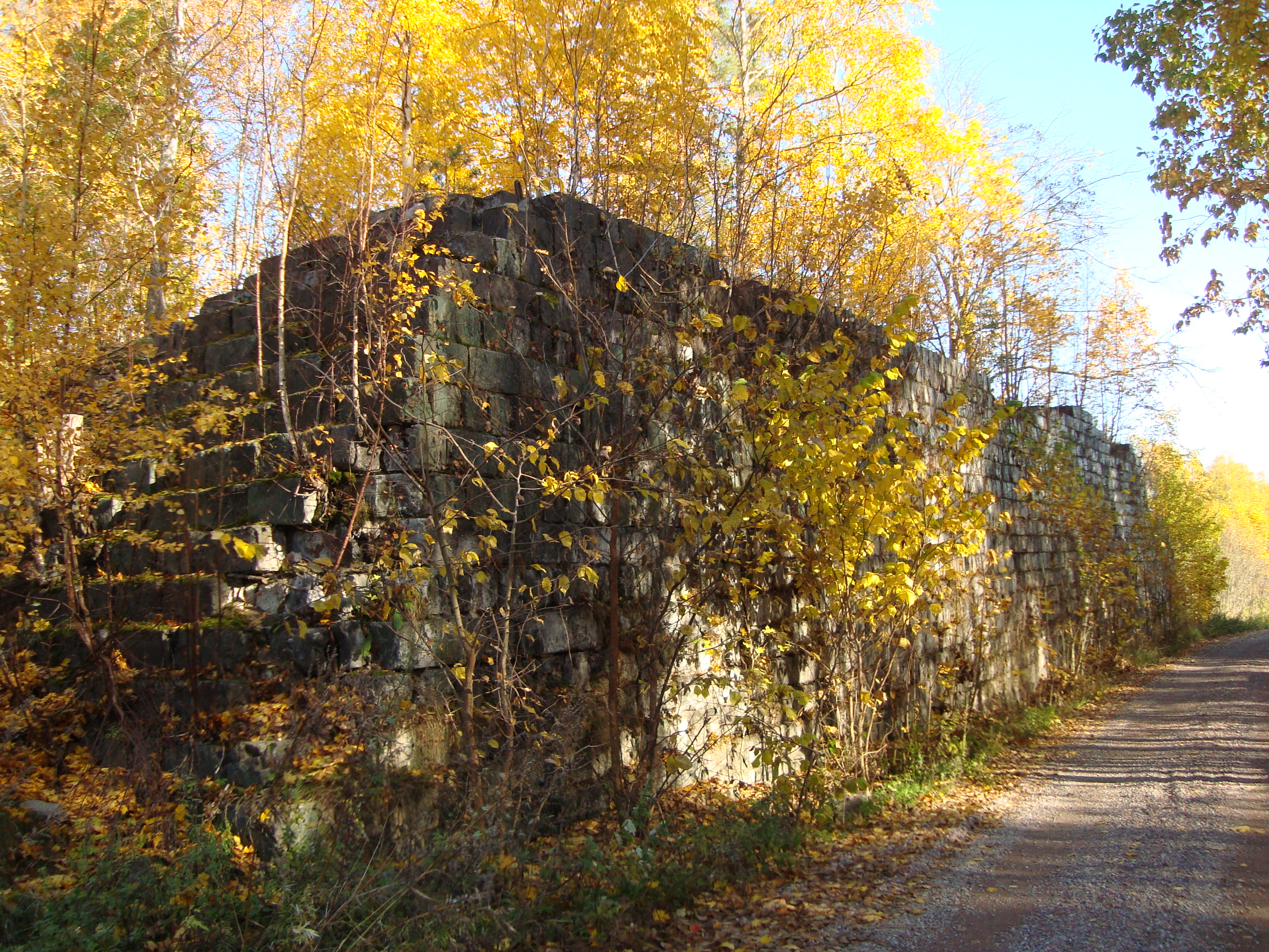 Iron works of Näs. Avesta municipality, Sweden. The coalhouse was one of Northern Europe's largest wooden buildings at the time.